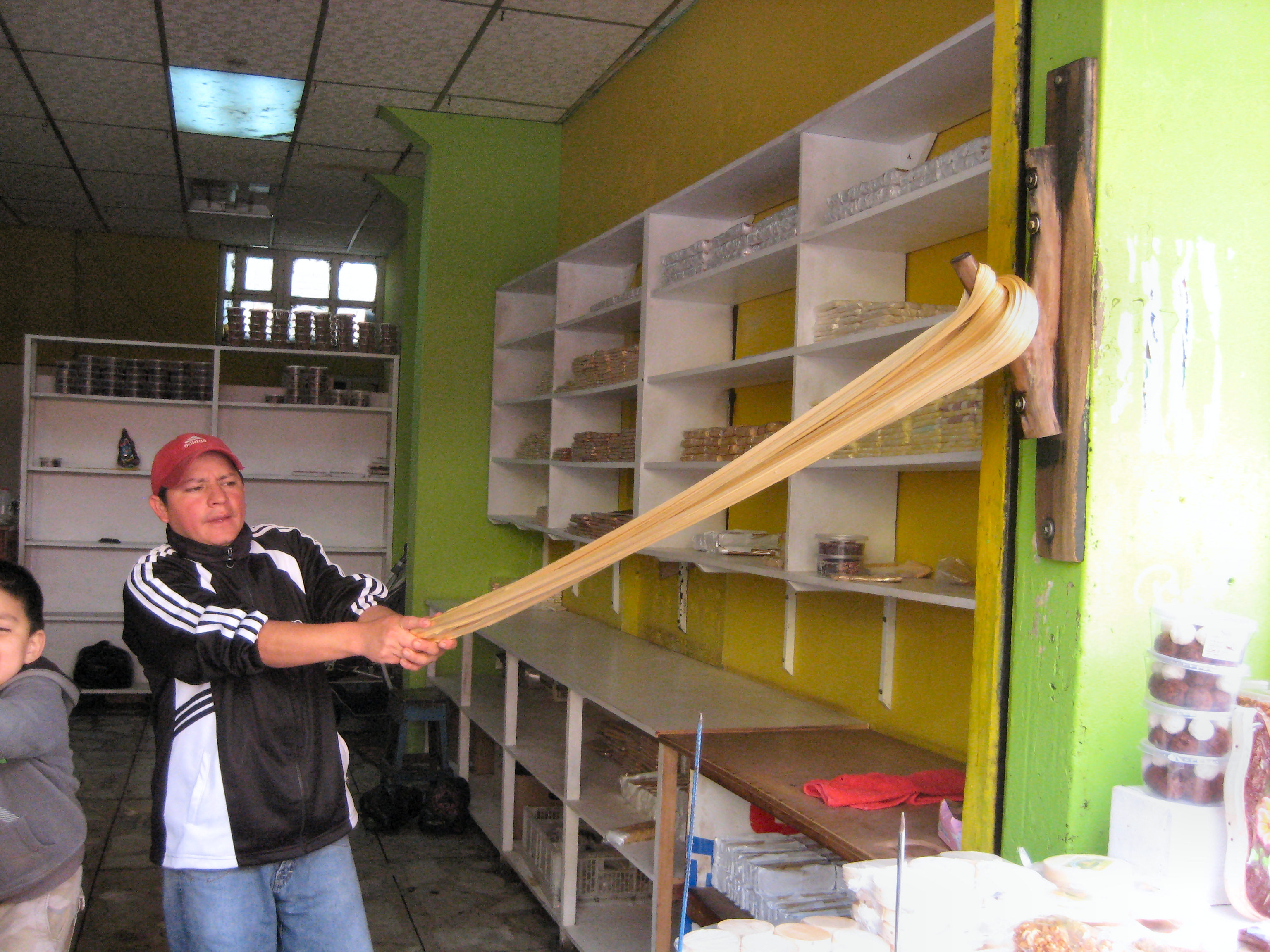 Melcocha, Baños.